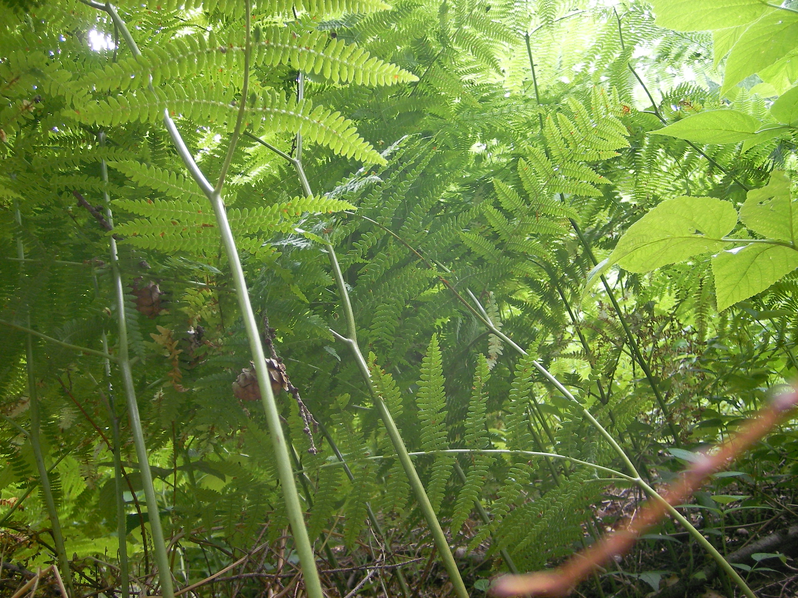 Pteridium aquilinum